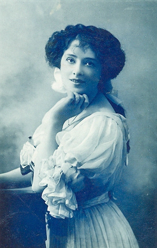 Postcard of Isabel Jay in The White Chrysanthemum 1906